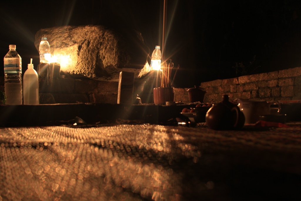 Khao Kha historical site, Tha Sala, Nakhon Si Thammarat, Thailand